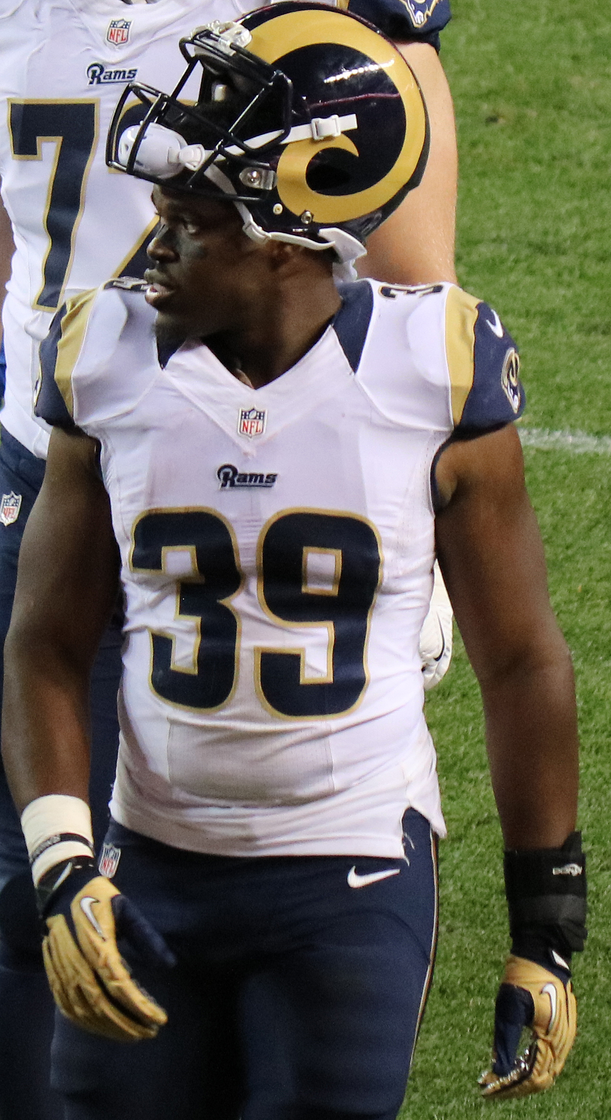 Malcolm Brown, a player on the National Football League.